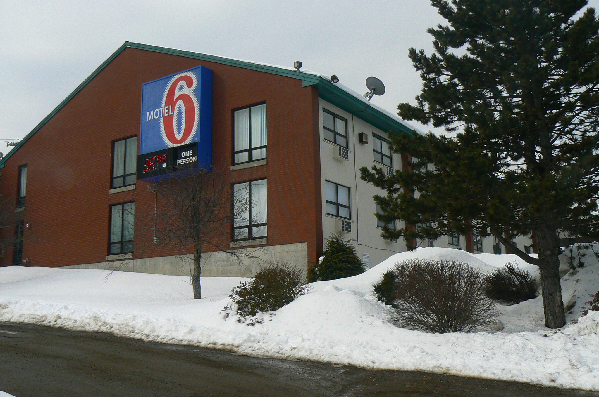 Motel 6 in Augusta, Maine.